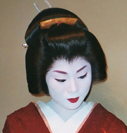 This photograph of a geisha at work in Gion was taken by the original author with the geisha's permission.